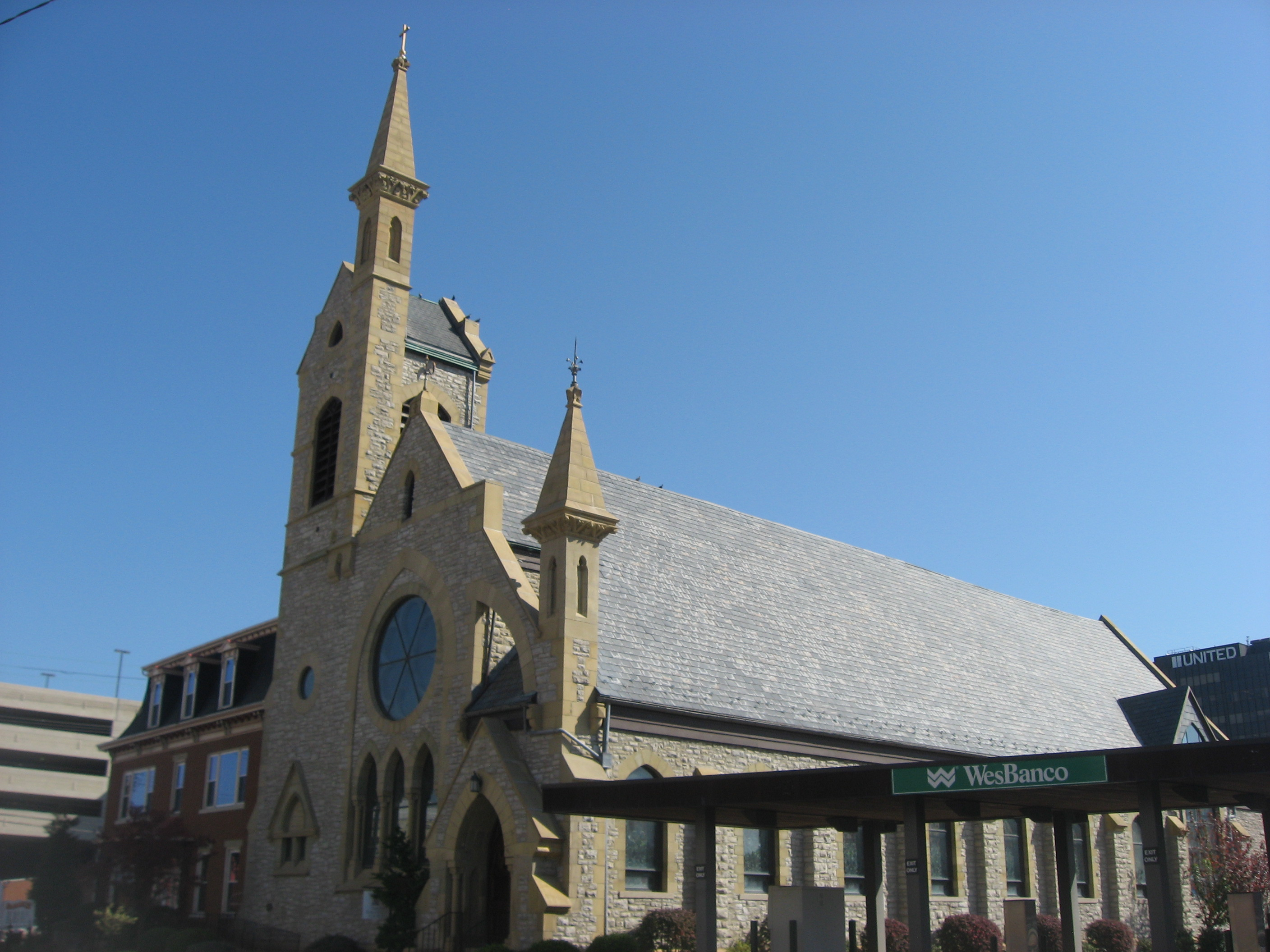 Front and western side of Trinity Episcopal Church, located at 424 Juliana Street (West Virginia Route 68) in Parkersburg, West Virginia, United States. Built in 1878, it is listed on the National Register of Historic Places. Note the parish rectory in the background, built in 1863 and also listed on the National Register.